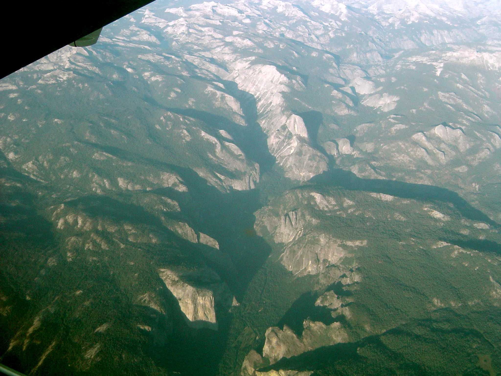 Yosemite Valley and Yosemite National Park from an airplane.